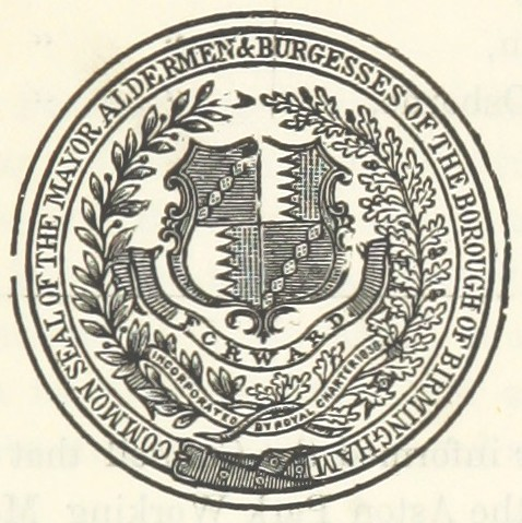 Image extracted from page 637 of Borough of Birmingham ... Proceedings of the Council. (9th November, 1855-28th October, 1859.)', by Birmingham Borough Council. Original held and digitised by the British Library. Copied from Flickr. Lettering reads: "Common seal of the Mayor, Aldermen & Burgesses of the Borough of Birmingham - Incorporated by Royal Charter 1838" Note: The colours, contrast and appearance of these illustrations are unlikely to be true to life. They are derived from scanned images that have been enhanced for machine interpretation and have been altered from their originals.